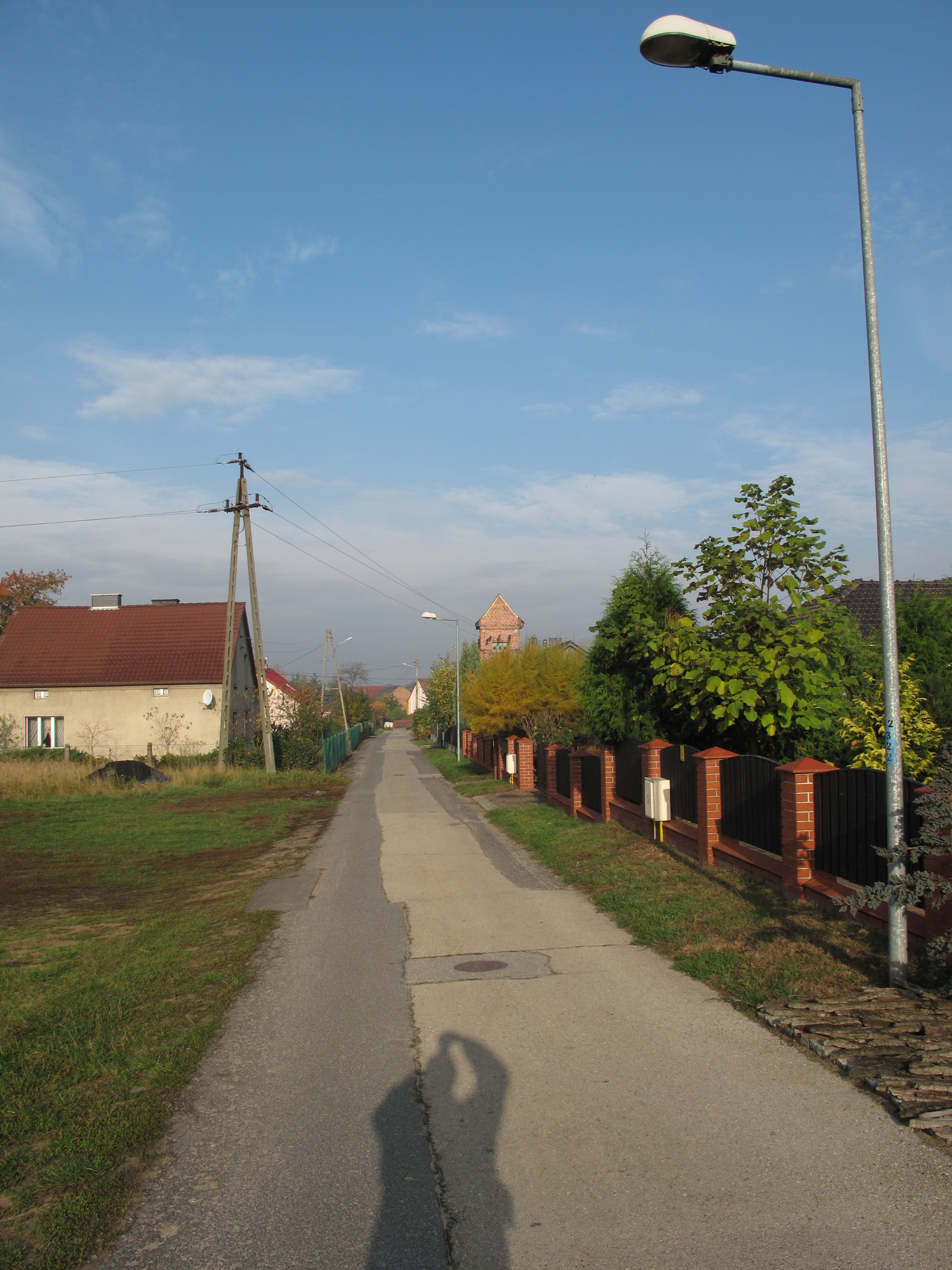 Brzeźce, Kędzierzyn-Koźle County, Poland.